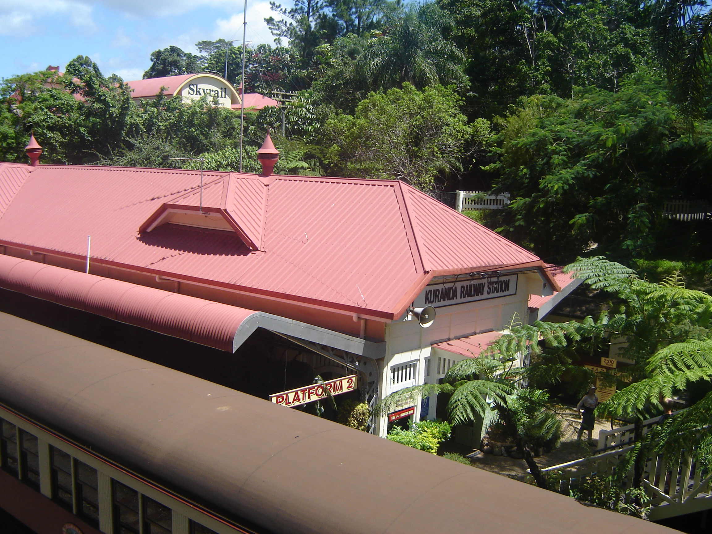 Kuranda Railway Station with Kuranda Scenic Railway - Bahnhof in Kuranda mit Kuranda Scenic Railway